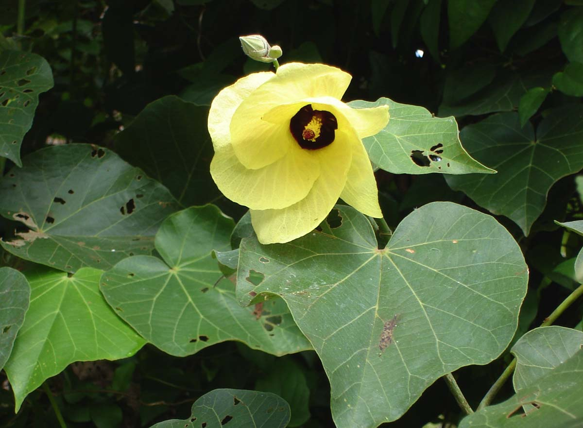 Hibiscus tiliaceus in Tonga